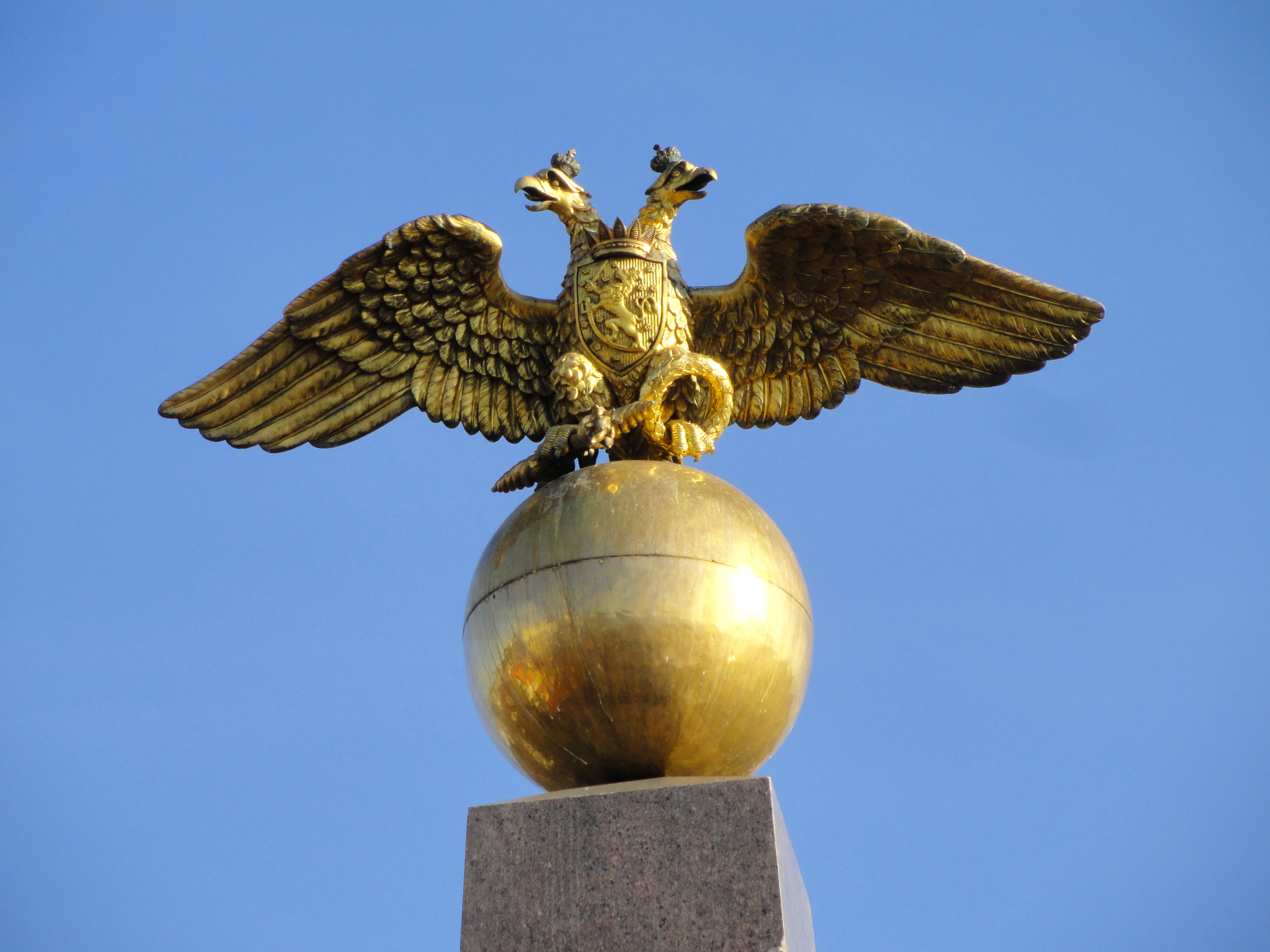 Stone of the Empress, Market Square, Helsinki, Finland. Sculptor: Carl Ludvig Engel. This artwork is in the public domain because the artist died more than 70 years ago.